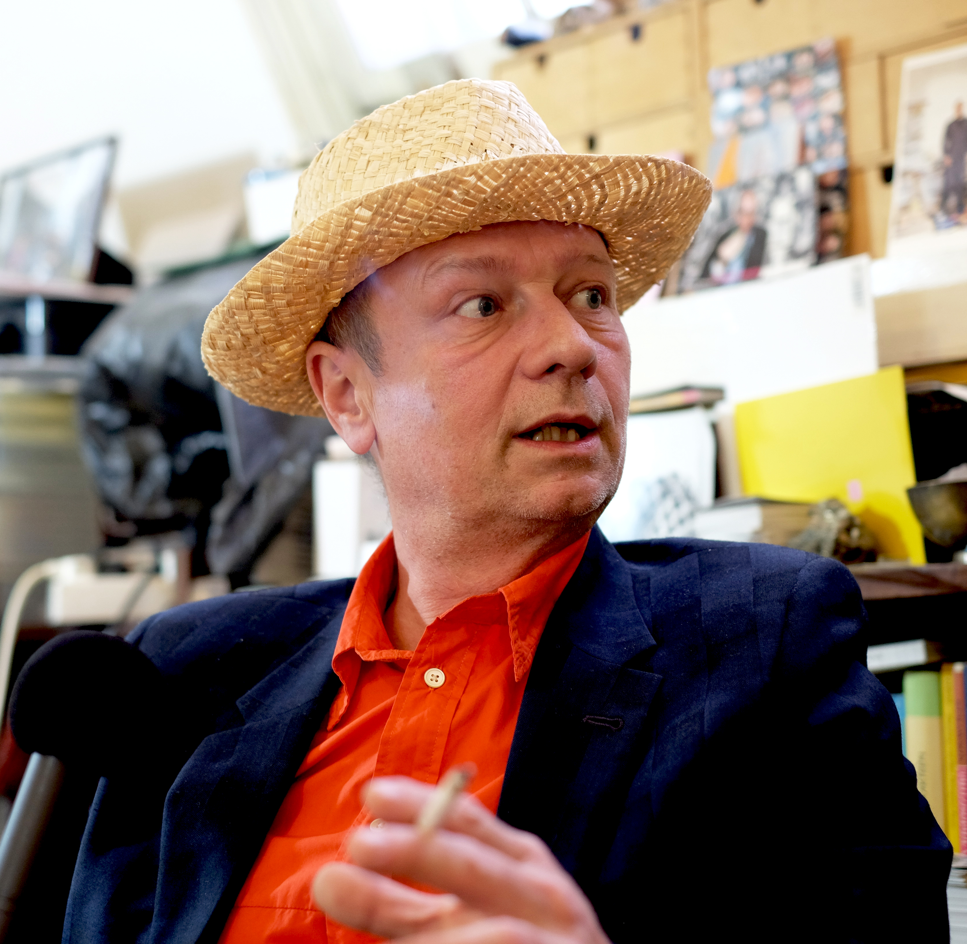 Austrian artist Ingo Nussbaumer during an interview in Vienna